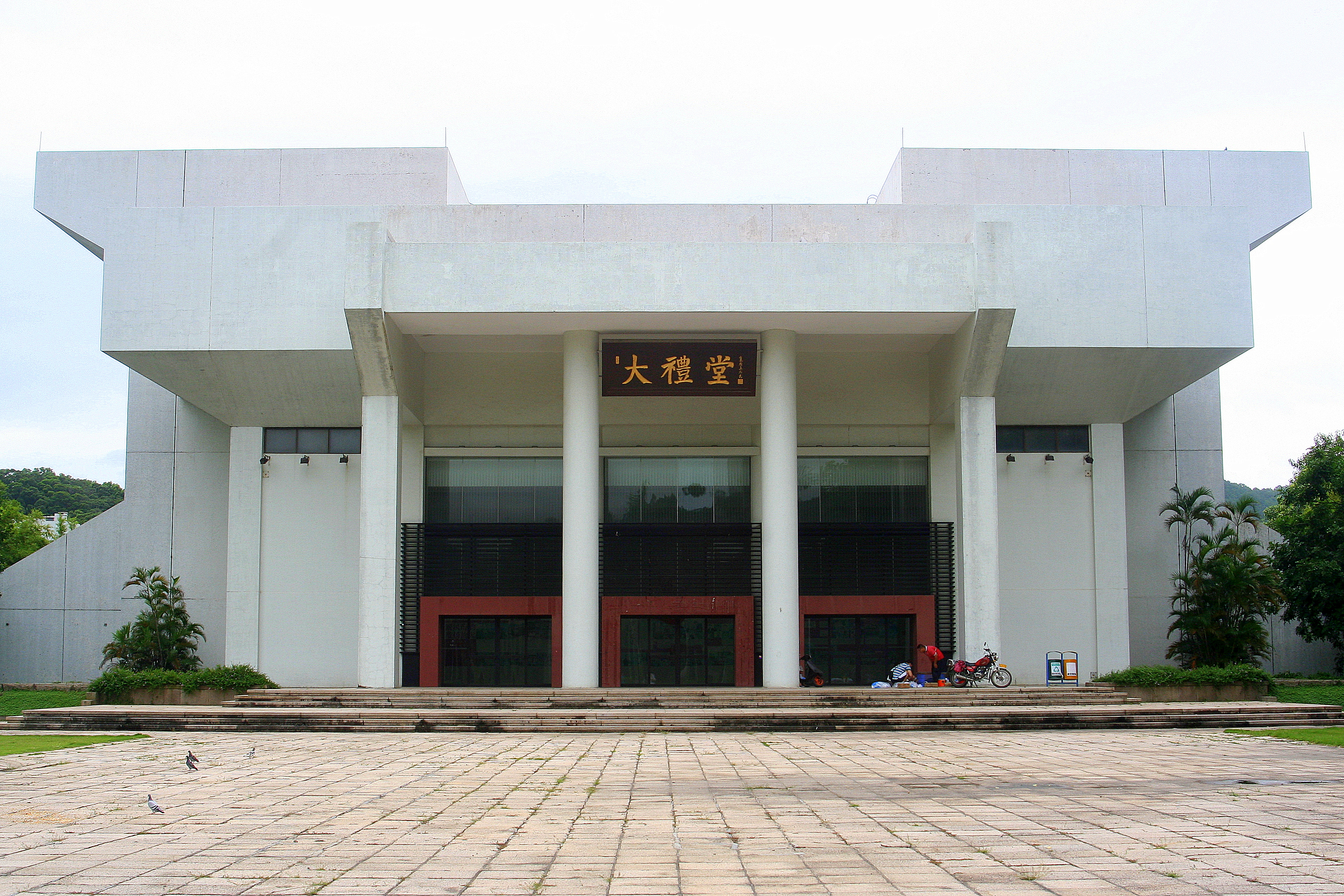 This is the Great Hall, a.k.a. auditorium (大禮堂) on the grounds of Shantou University, in Guangdong, China.